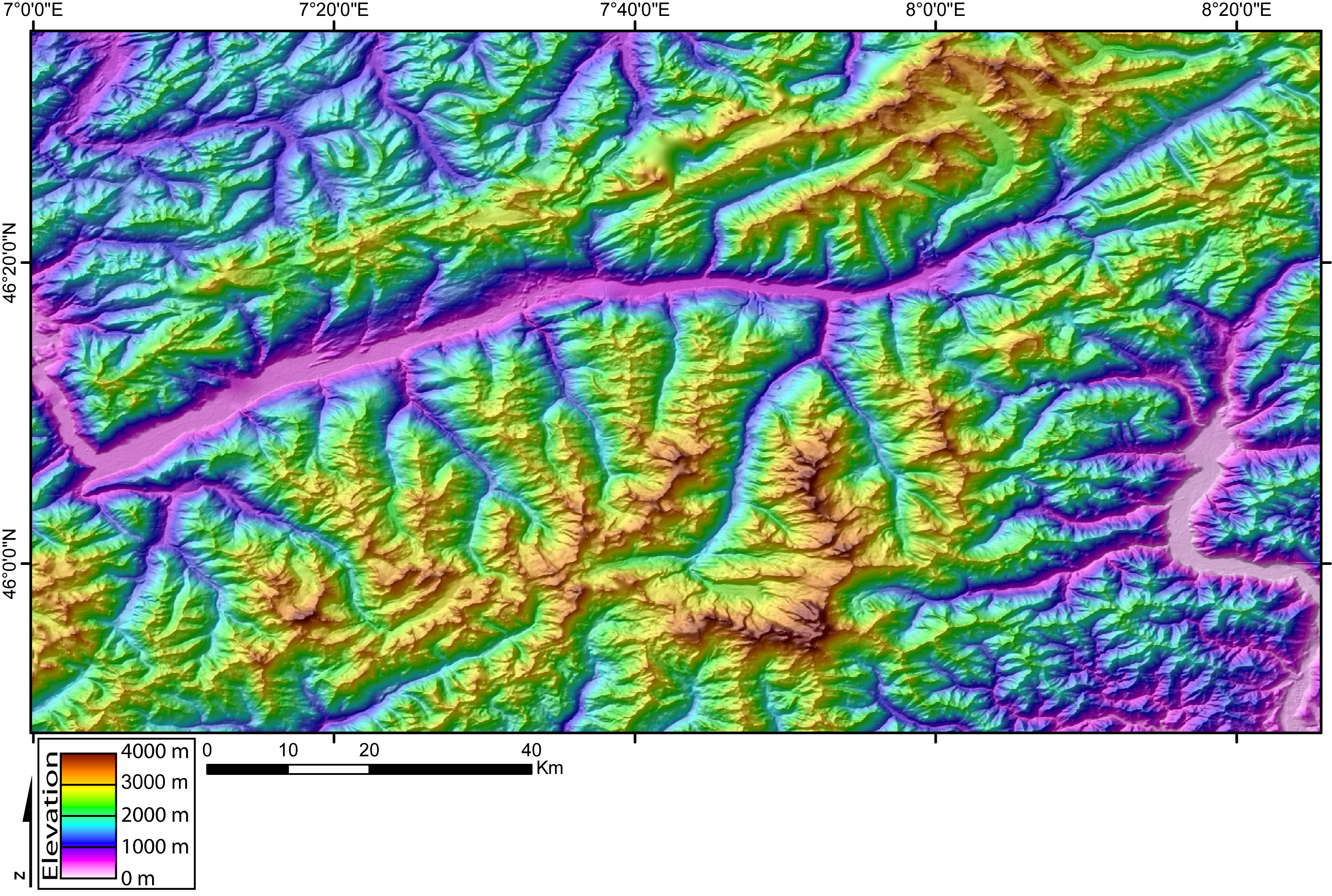 DEM of the Valais area (Swiss Alps) created by Jide from the 90 pixel size SRTM dataset. The large E-W valley in the middle of the picture is the Rhone valley. To the NE, one can see the Aletsch Glacier, the biggest european glacier, coming from the Aar Massif. One can see the NE edge of the Mont-Blanc Massif to the SW of the picture. The wide valley the East is the Domodosola valley (Ticino, Switzerland).Zermatt is located roughly at 46 00' / 07 50'.